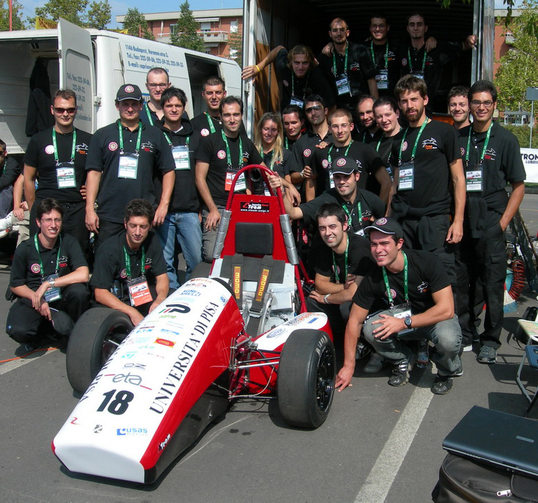 E-Team 2008 members at Formula SAE Italy 2008